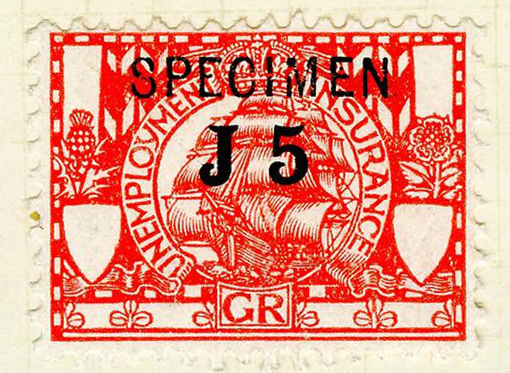 National Insurance stamp, Great Britain, 1912.